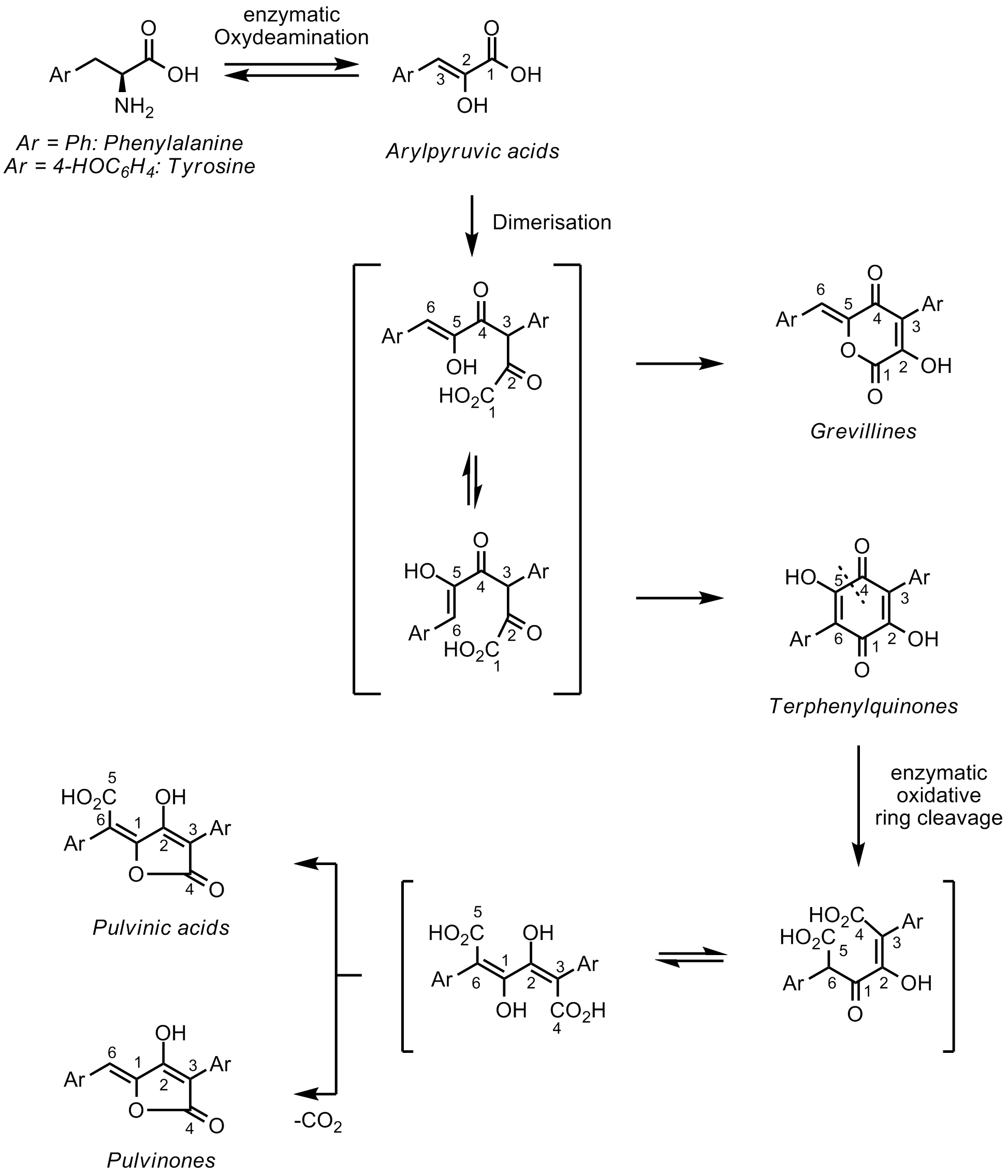 Biosynthetis of pulvinones and related fungal pigments (AlChimini, AlChimini, 2008-05-24)